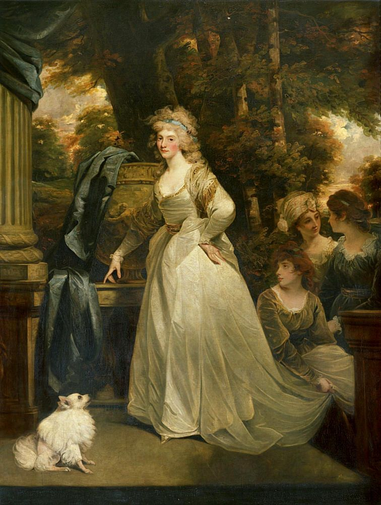 Frederica Charlotte of Prussia (1767-1820), duchess of York and Albany